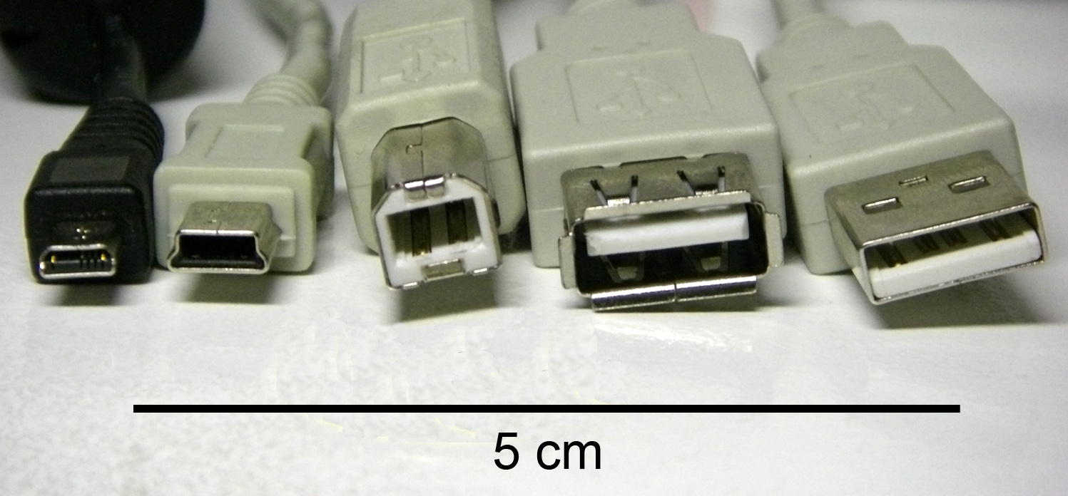 Five common USB connectors (left to right: micro USB, male Mini USB (5-pin) B-type, male B-type, female A-type, male A-type) shown with a 5 cm scale.